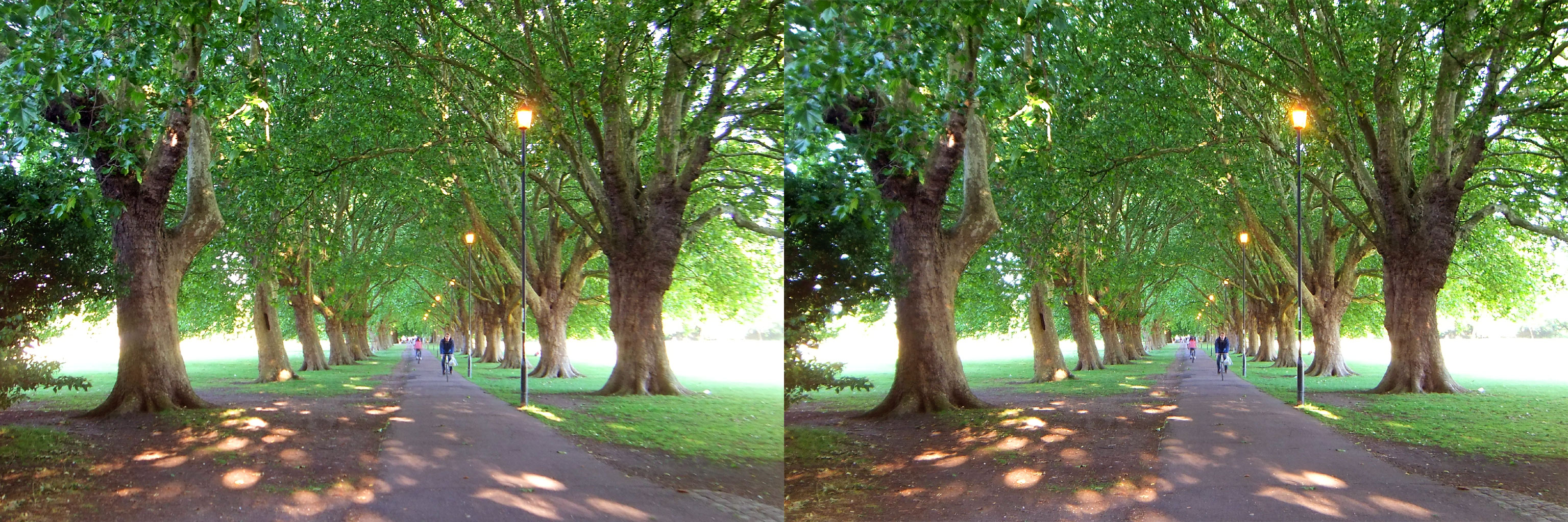 Avenue of London plane trees on Jesus Green, Cambridge, England (cross-eye stereo).